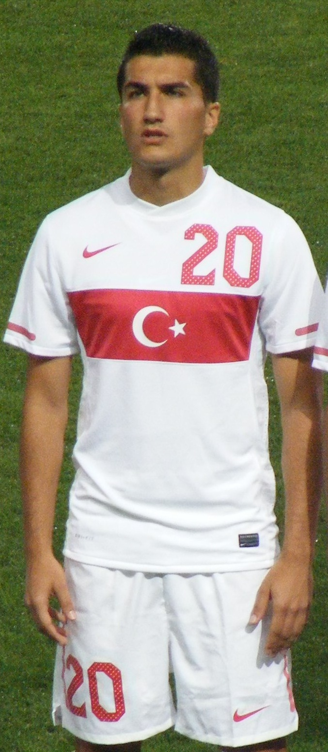 Nuri Şahin in the strip of the Turkey national football team during a match against Romania on Wednesday, 11 August 2010, at Fenerbahçe Şükrü Saracoğlu Stadium in Istanbul, Turkey.